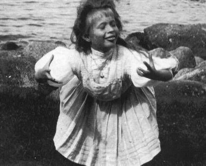 Grand Duchess Anastasia of Russia